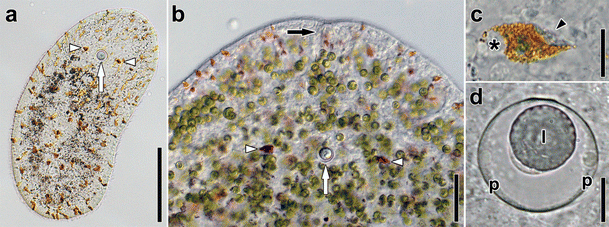 Images of sensory structures of live Symsagittifera roscoffensis. a Hatchling. Arrowheads point to eyes, arrow to statocyst. Note absence of symbionts and presence of orange rhabdoids. b Anterior end of adult with symbionts and rhabdoids. White arrowheads point to eyes, white arrow to statocyst, black arrow to frontal organ. c Eye of an adult. Asterisk marks nucleus, arrowhead points to concrements. d Statocyst of an adult. Abbreviations: l lithocyte; p parietal cells. Scale bars: a 100 μm; b 50 μm; c 10 μm; d 10 μm